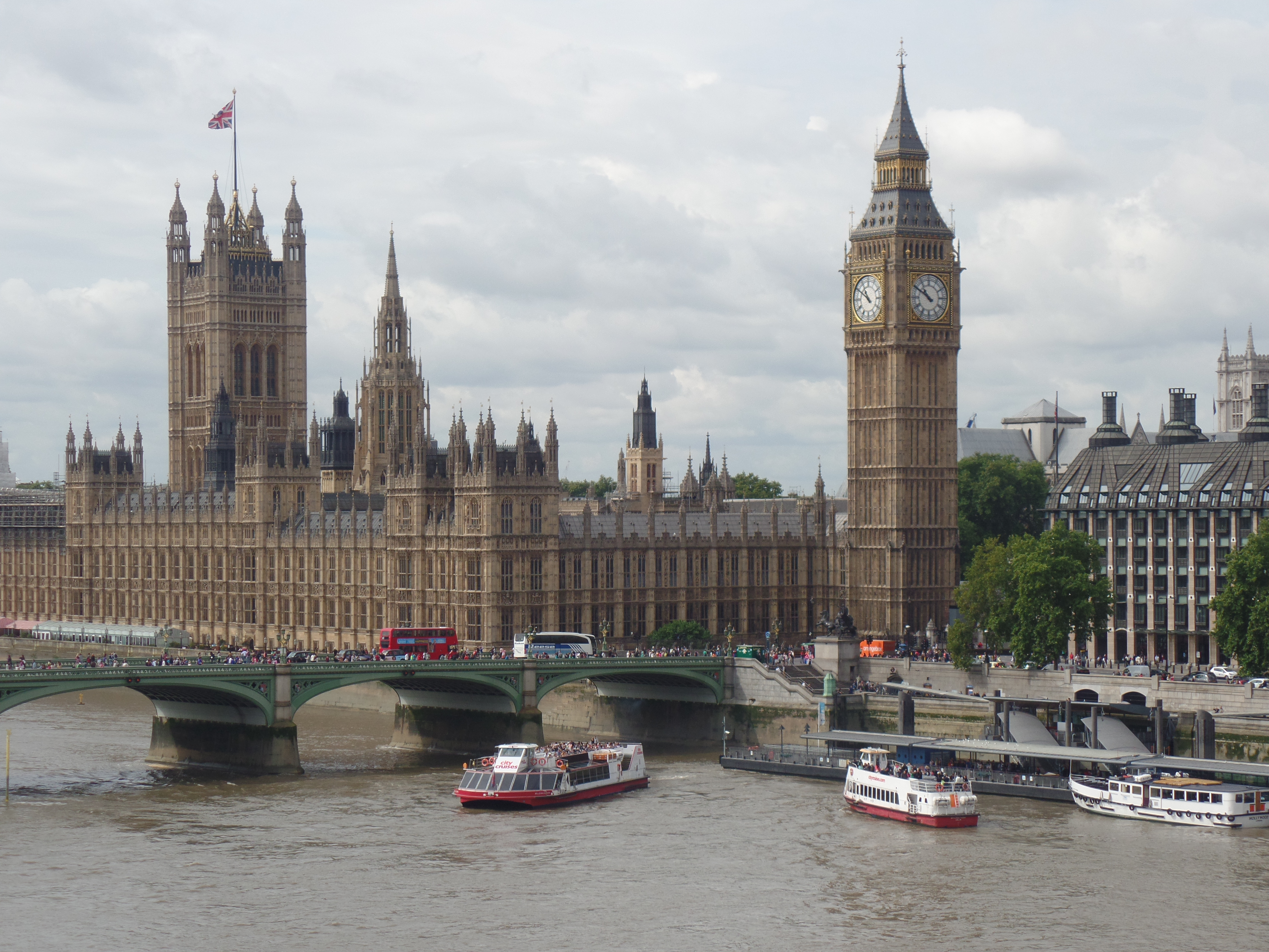 The Palace of Westminster as seen from the London Eye in August 2014.